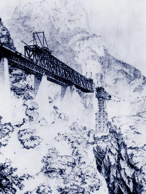 Bridge over river Asopos in Central Greece, blown up by the group of saboteurs of British SOE, June 1943. The bridge was blown up again October 1944, during the evacuation of the German army from Greece.